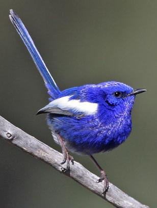 Male White-winged Fairy-wren near Coolmunda Dam, Queensland